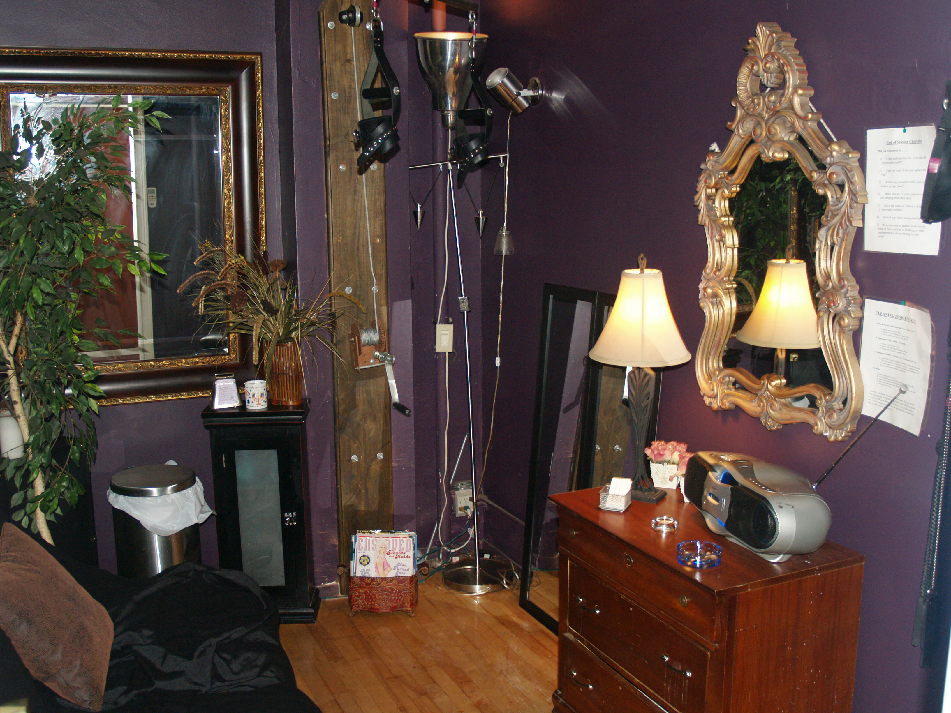 The Purple Room in an S&M Dungeon, by David Shankbone